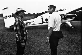 William Cameron Towsend (left hand) with one of his first JAARS pilots